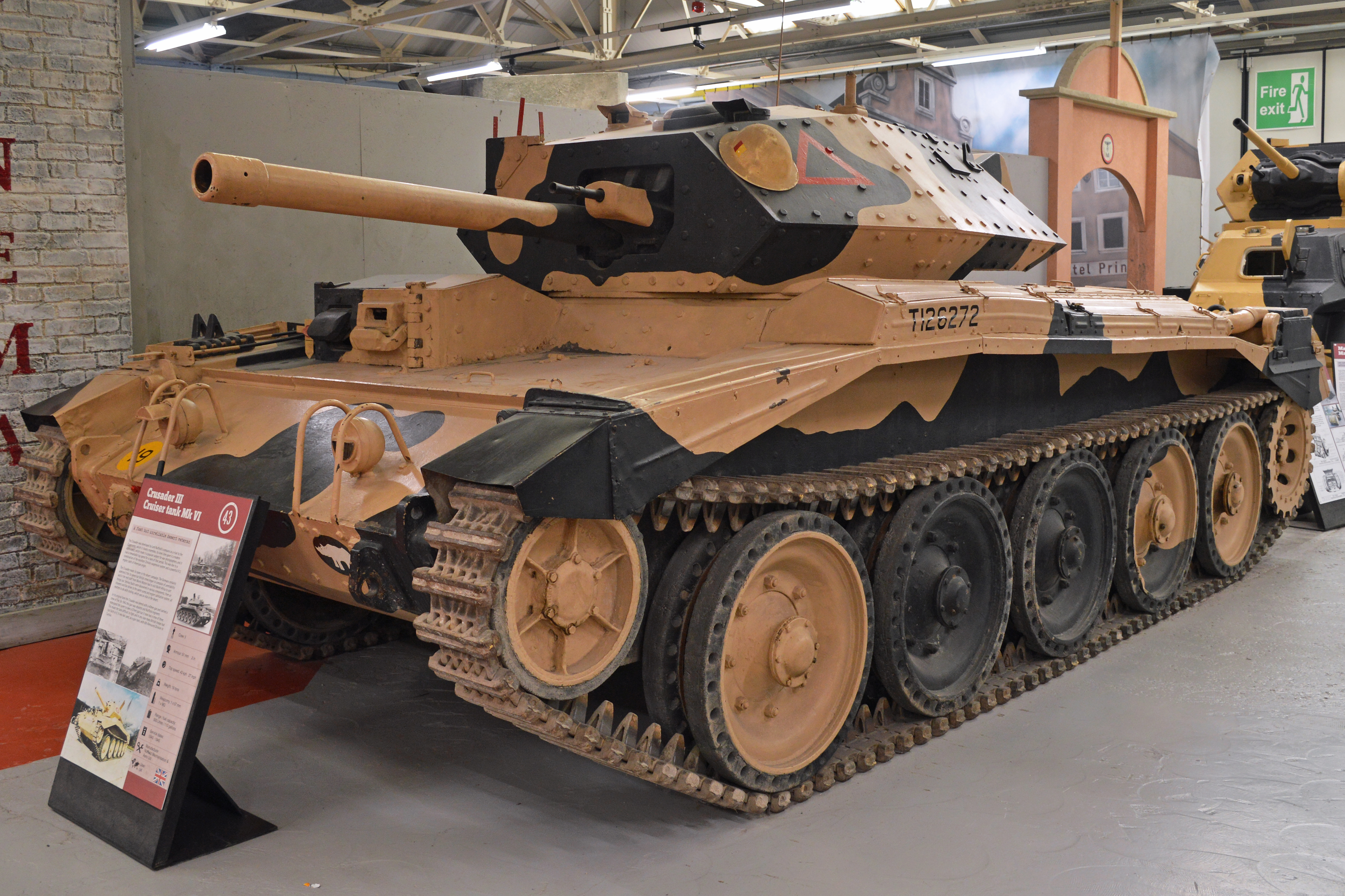 Official designation:- Tank Cruiser Mark VI, A15 Crusader III British serial:- T126272. Built by Nuffield Mechanisations & Aero Ltd The Crusader was Britain’s primary Cruiser tank during the early part of WW2. Over 5,000 were built between 1940 and 1943. They were critical to British victories during the North Africa Campaign, but were soon outclassed when the German Afrika Korps received Tiger I heavy tanks. Crusaders also served with the Armies of Australia, Canada, Netherlands and South Africa. More than 20 Crusaders survive, some in South Africa. This MkIII is fully operational and has previously taken part in TankFest. Seen on display at The Tank Museum, Bovington, Dorset, UK. 26th July 2016